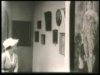 Photo of Murnau´s film "Der Knabe in Blau"